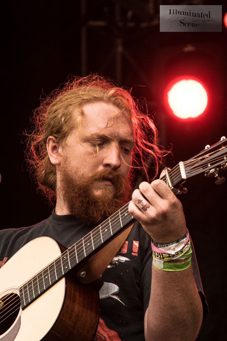 Tyler Childers at Hinterland Music Festival, St. Charles, IA 8/4/18